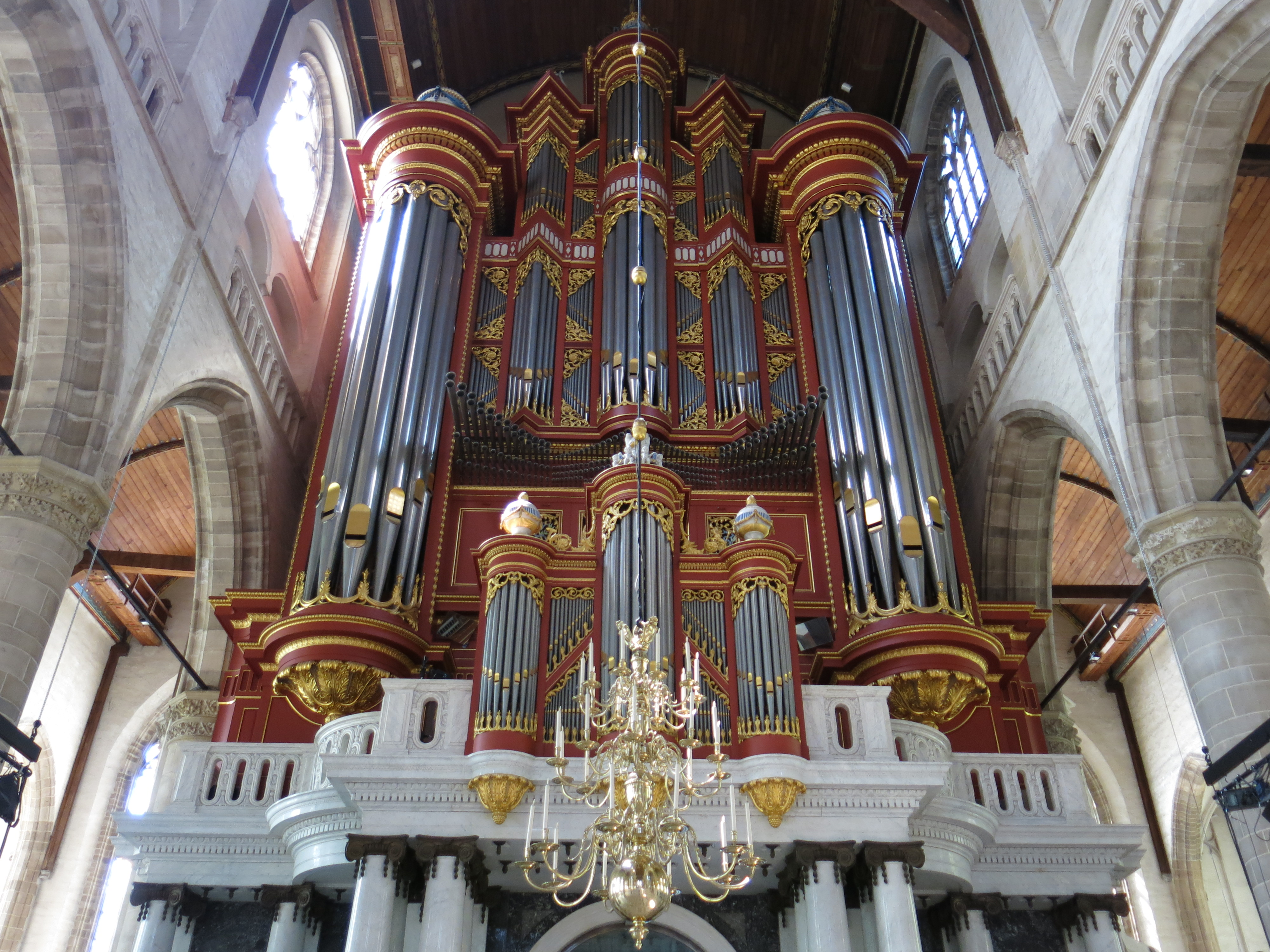 A massive organ in the St. Lawrence Church, Rotterdam